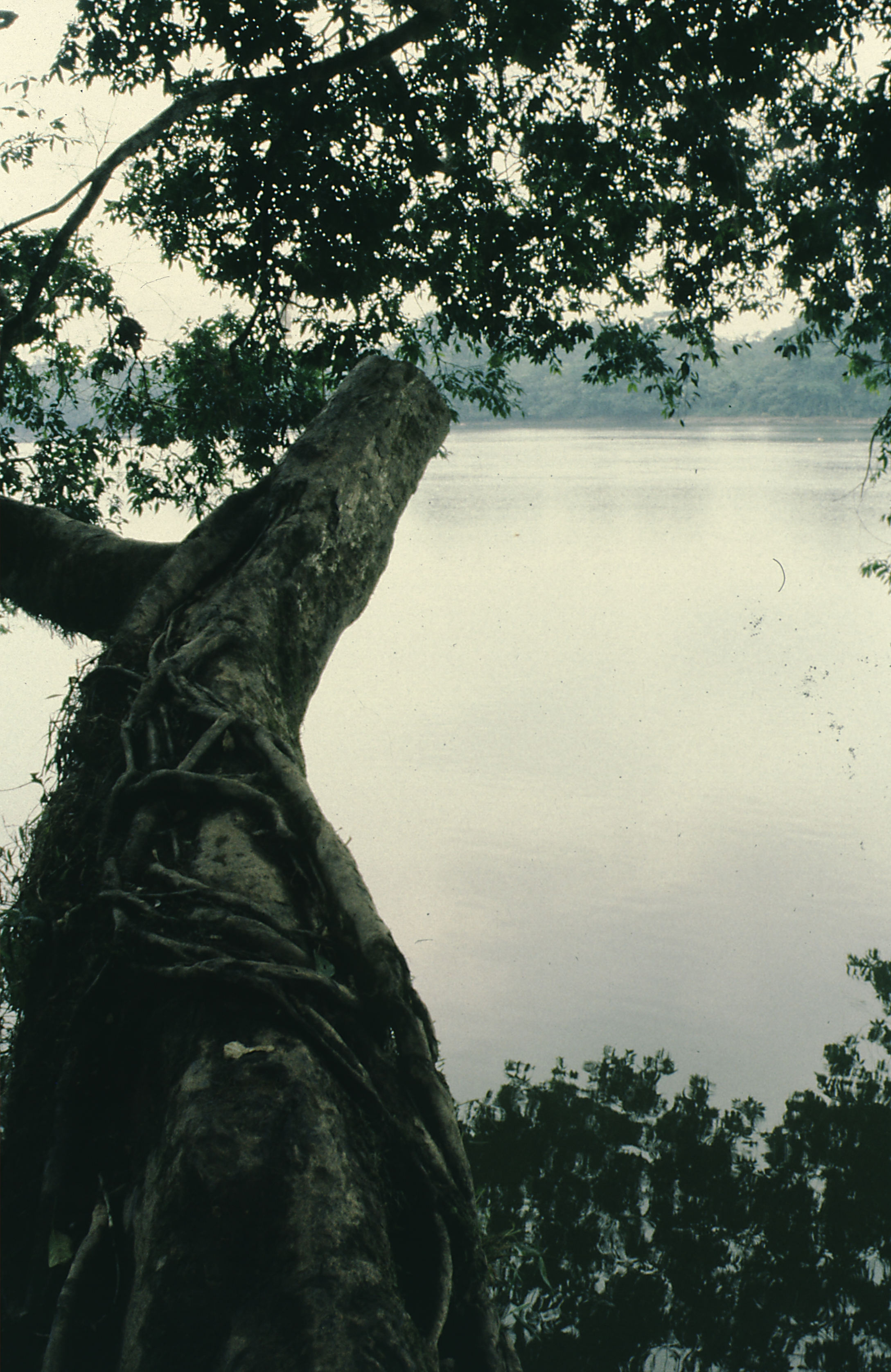 This photo has been scanned with a Reflecta DigitDia 6000 image scanner.